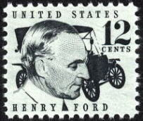 US stamp honoring Henry Ford